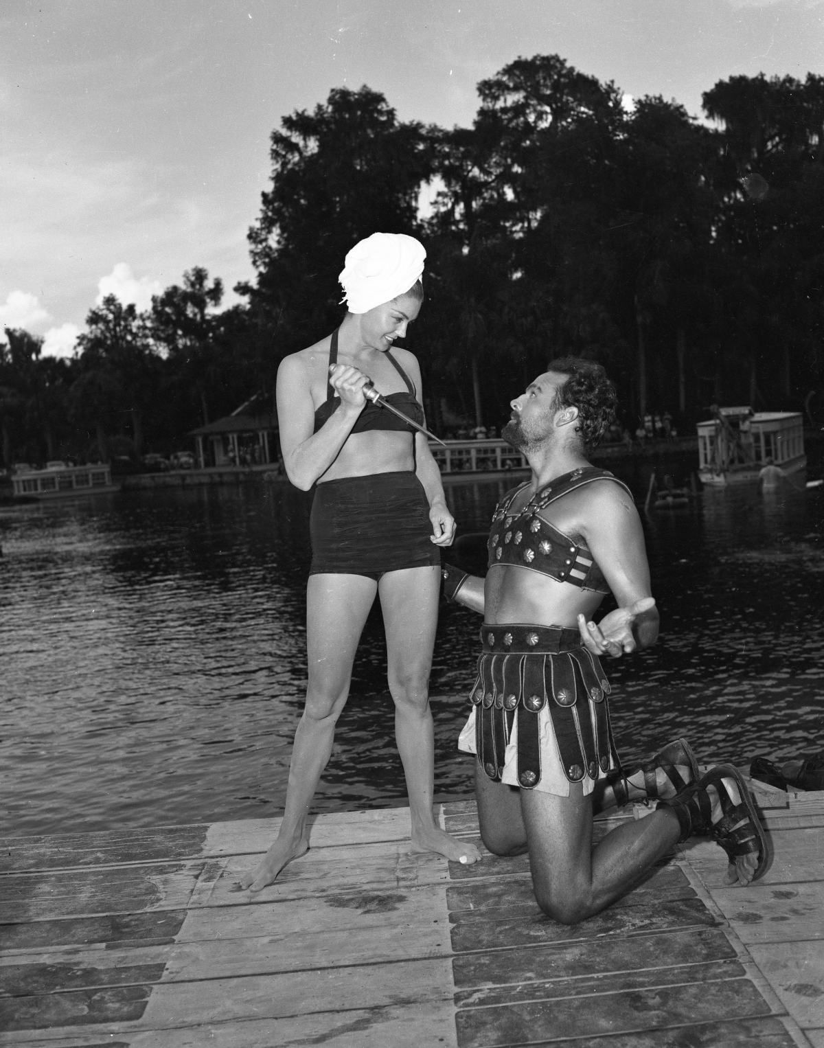 Esther Williams joking around with Howard Keel on the set of "Jupiter's Darling" at Silver Springs.